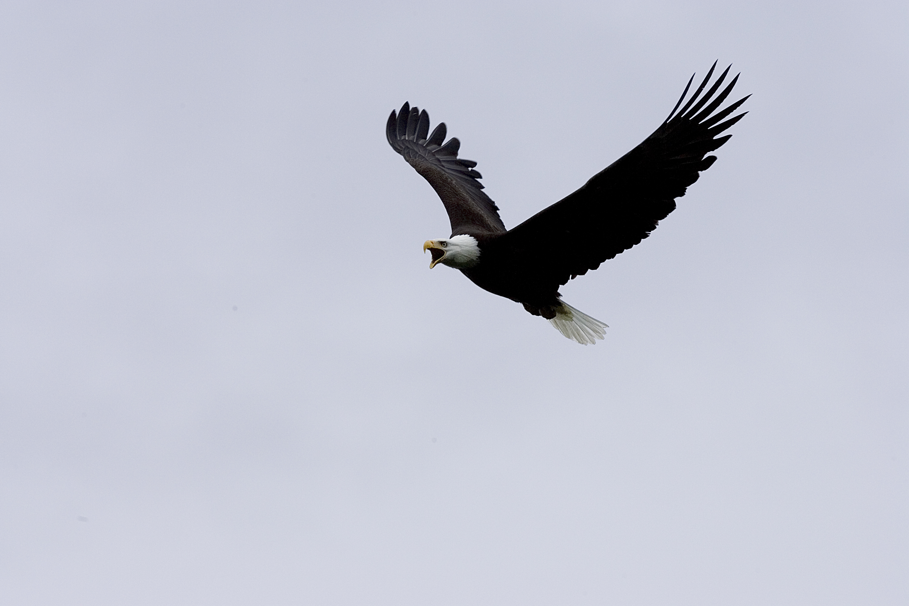 Bald Eagle (Haliaeetus leucocephalus) in Flight